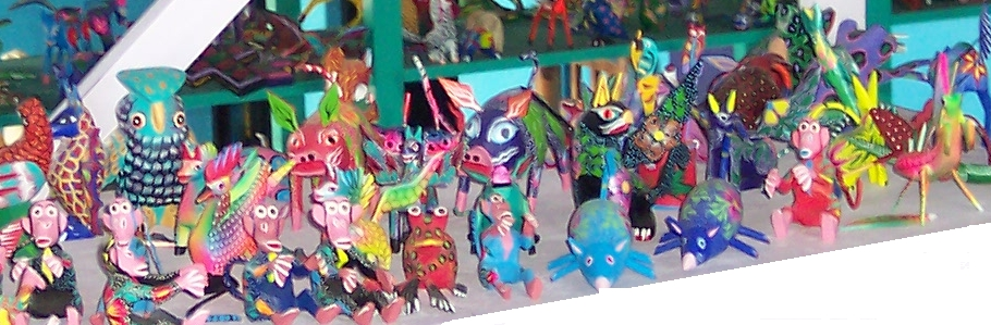 Some alebrijes from Arrazola Town in Oaxaca Mexico.